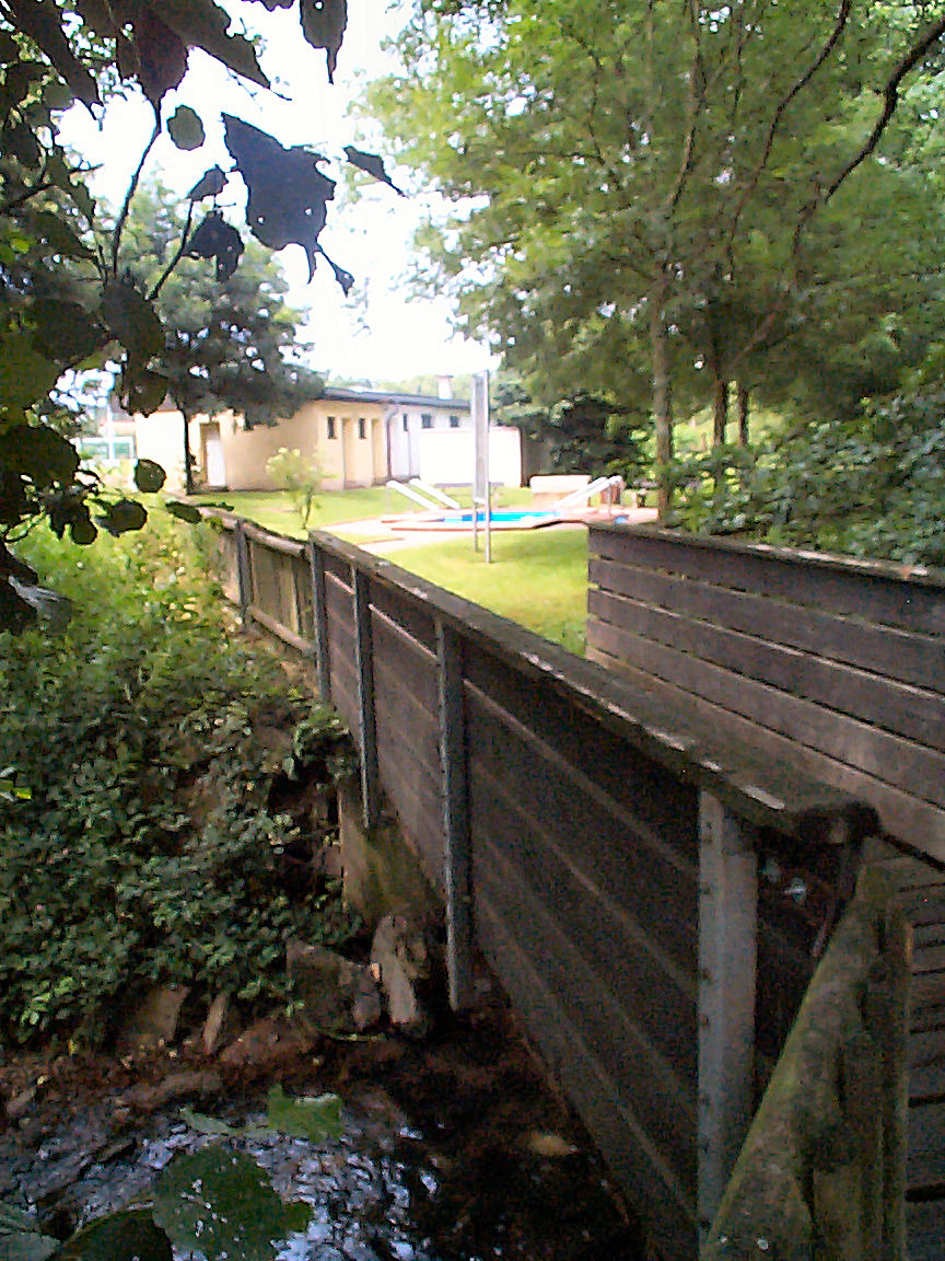 "Holzbach" (lit.: Wood Brooks) near Thailen, Saarland, Germany